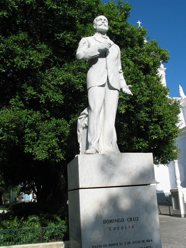 Statue of Domingo Cruz ("Cocolia"), the former director of the Ponce Municipal Band — in Plaza Las Delicias, Ponce, Puerto Rico. Formerly known as the Ponce Firefighters' Band.